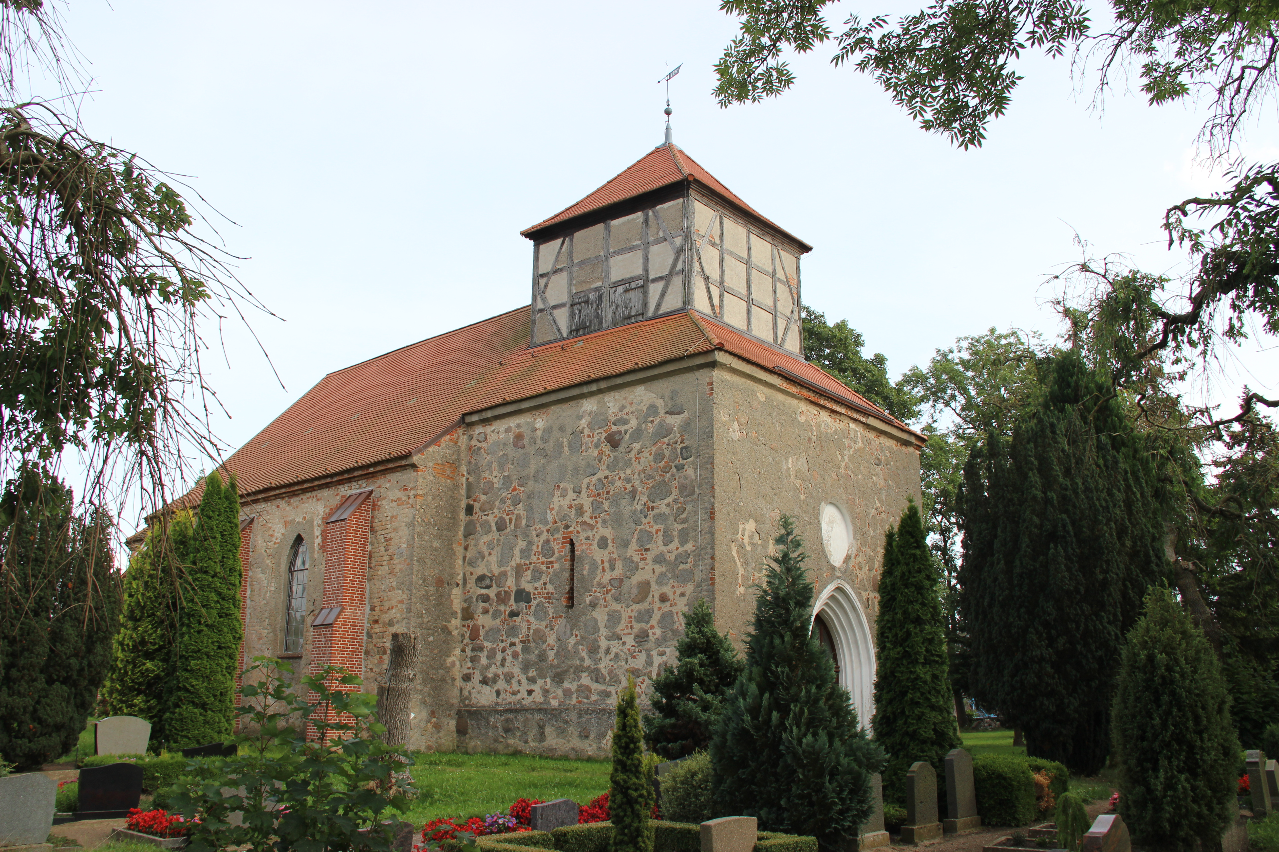 Church in Daberkow